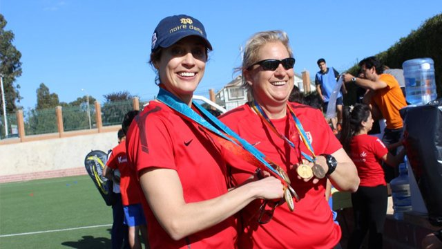 Linda Hamilton and Kate Sobrero-Markgraf at a soccer clinic in Chile